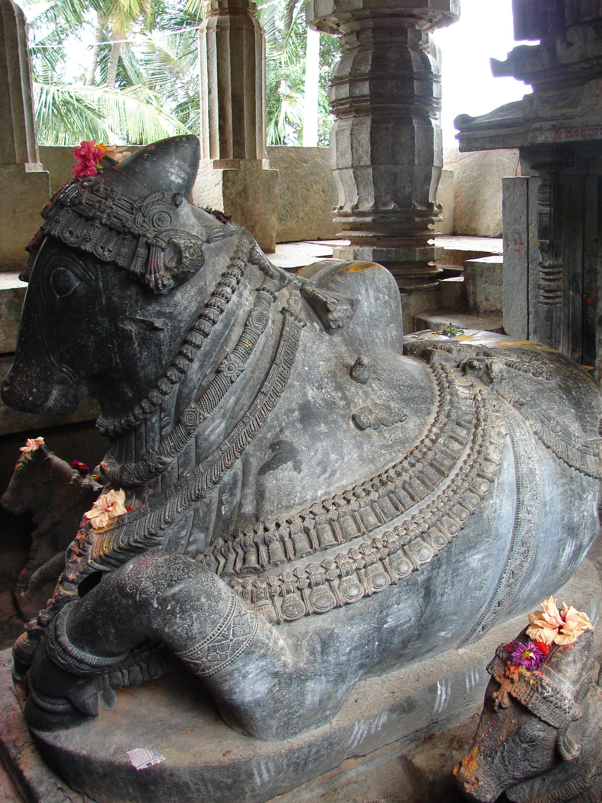 This photograph was taken by me at the Brahmeshvara temple (also spelt Brahmeshwara or Brahmeswara) in Kikkeri, Mandya district, Karnataka state, India. The temple was built in 1171 A.D. during the rule of Hoysala Empire King Narasimha I